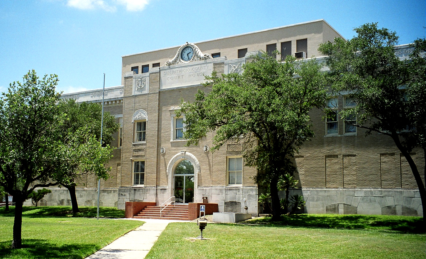 The San Patricio County Courthouse located in Sinton, Texas, United States. Designed by architect Henry T. Phelps and built in 1927, this is the eighth structure to serve as the San Patricio County Courthouse.